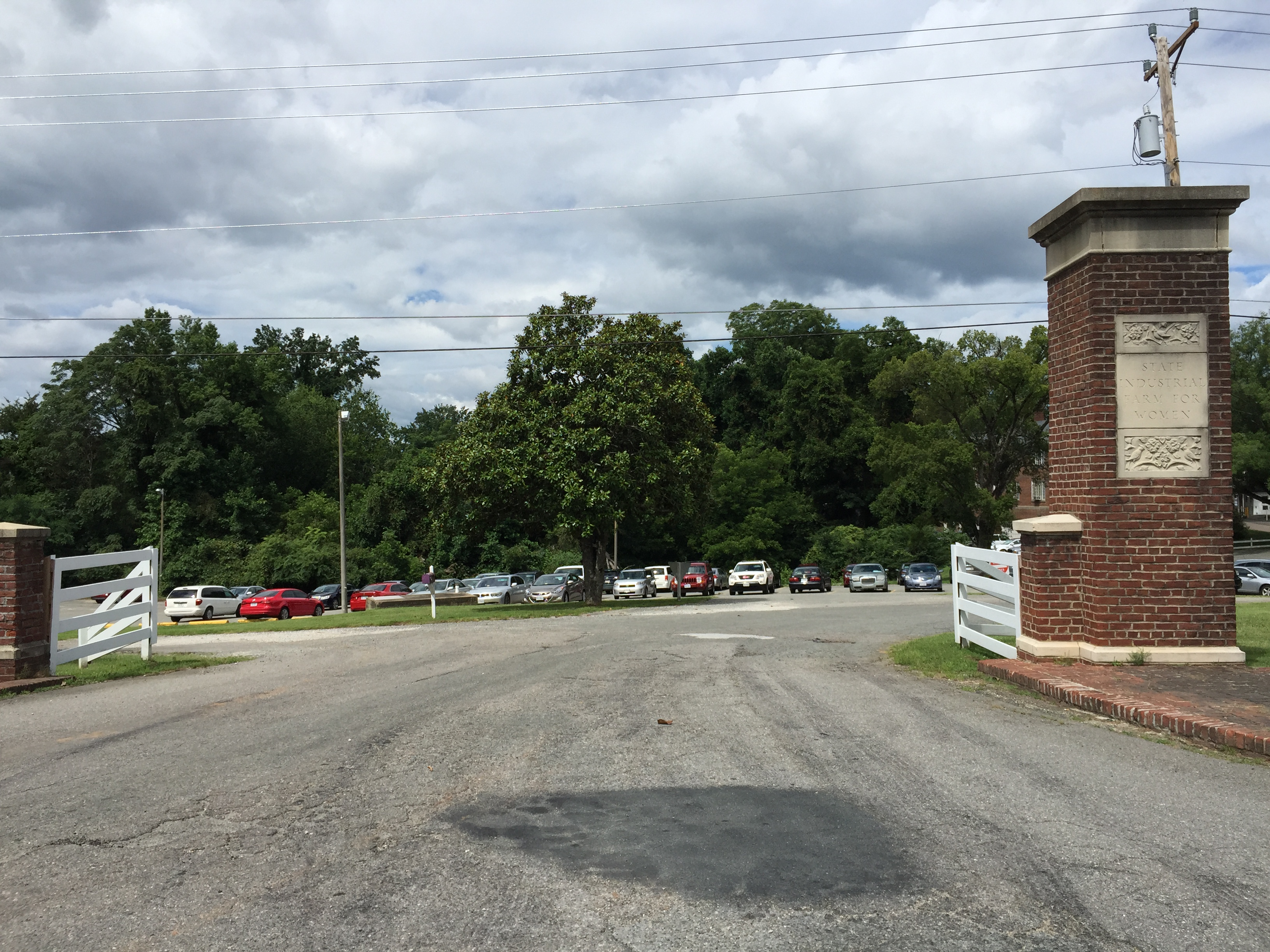 View west along Virginia State Route 329 at U.S. Route 522 and Virginia State Route 6 (River Road) at the Virginia Correctional Center for Women in Maidens, Goochland County, Virginia